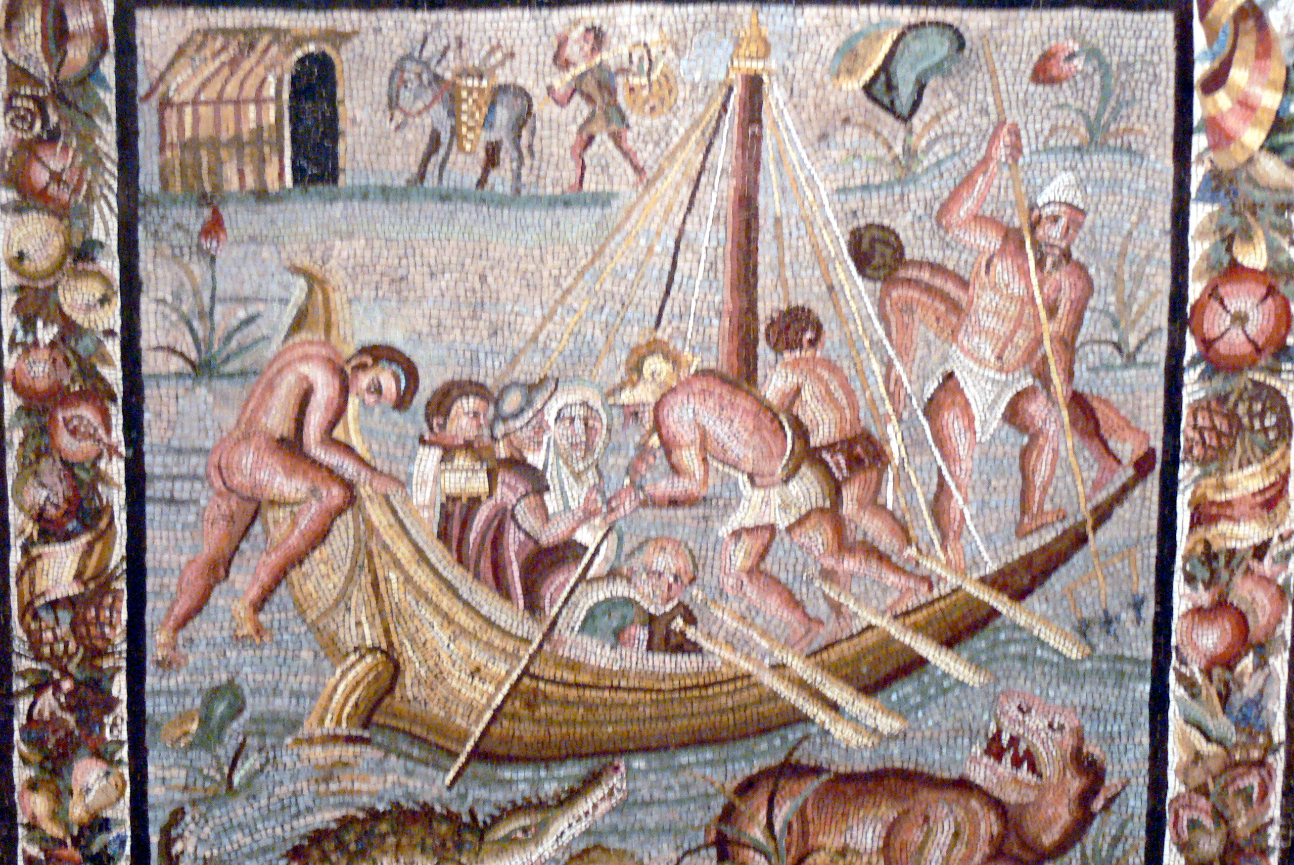 National Museum of Wales ( Cardiff ). Ancient Roman mosaic ( 1st century AD ) showing a boat on river Nile.